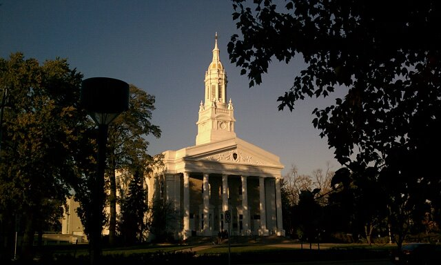 Lawrence Memorial Chapel in Appleton Wisconsin.